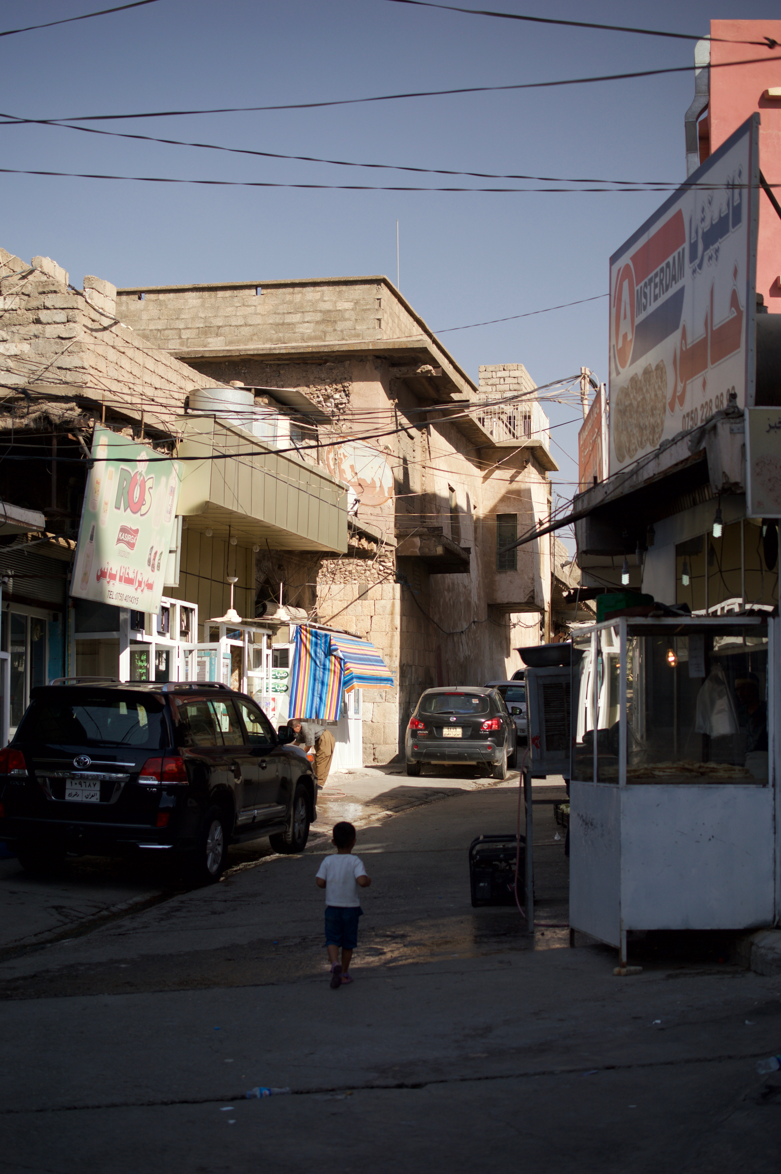 Located on an island within the river is Zakho's old quarter